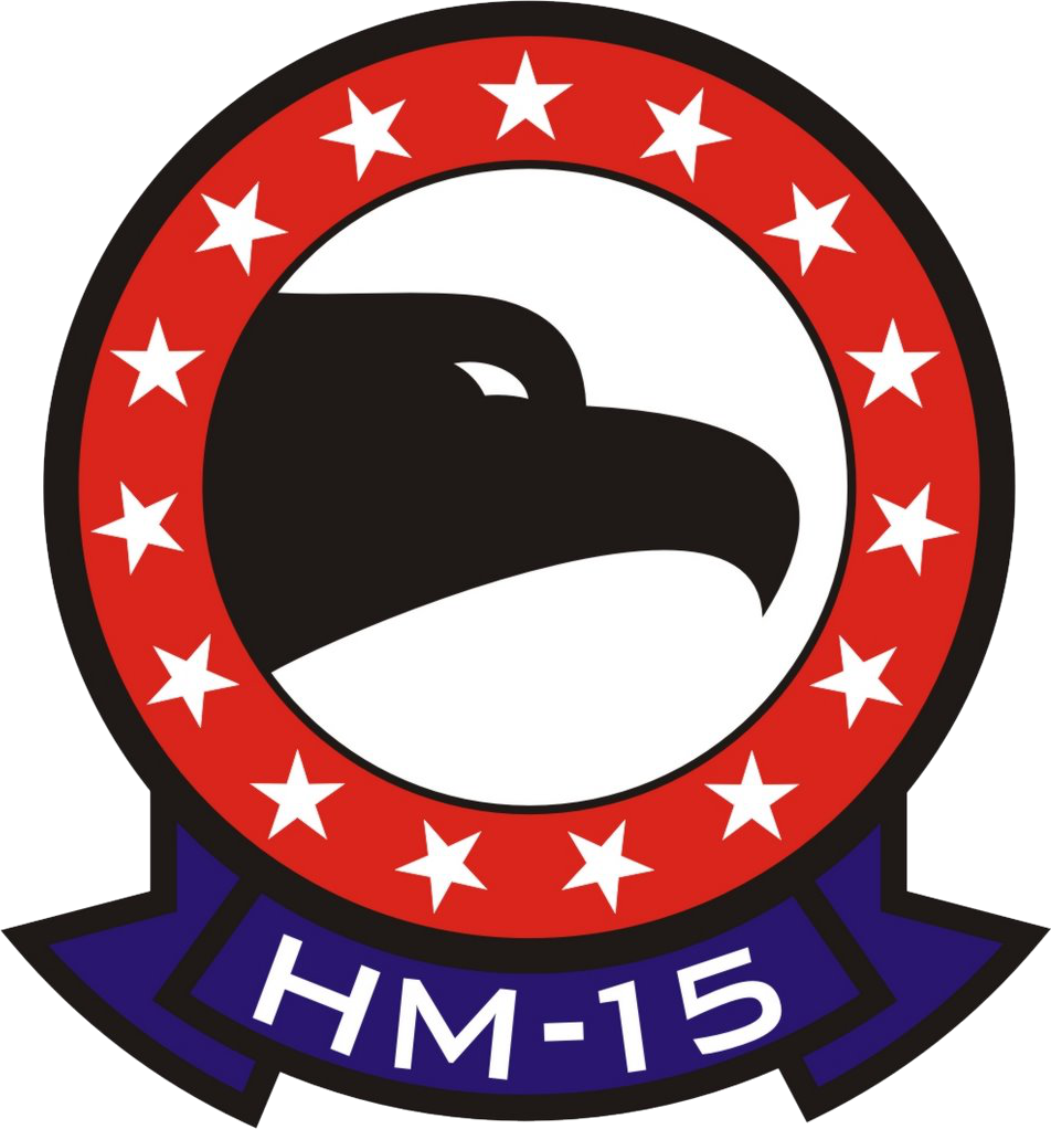 U.S. Navy Helicopter Mine Countermeasures Squadron 15 (HM-15) insignia. Lineage: Established on 2 January 1987. The insignia was approved on 3 December 1986 as HM-15 adopted the old insignia of HM-16.